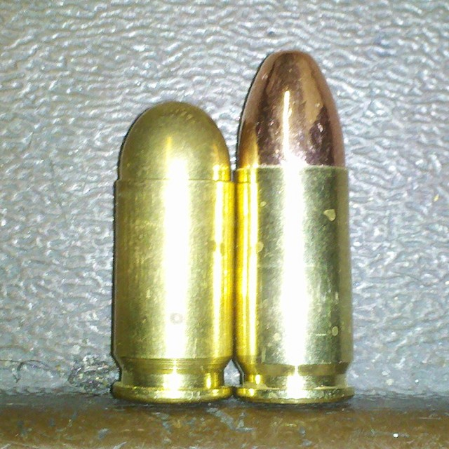 9x18 Makarov (left) and 9x19 Luger cartridges side-by-side. Both use full metal jacket bullets